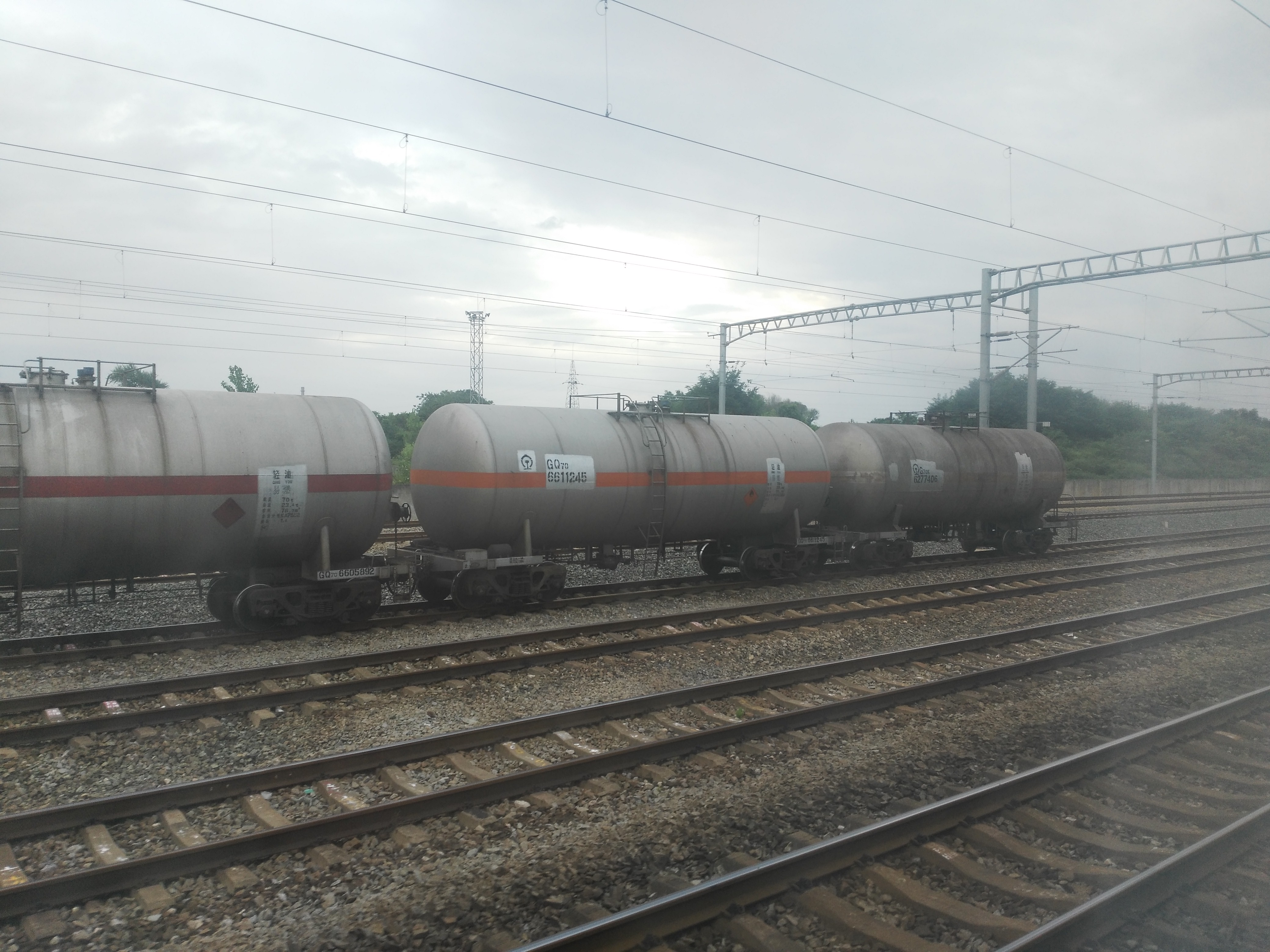 A G70K train car numbered 6611245. The photo was taken at Xindian Station on the Wujiu Line.